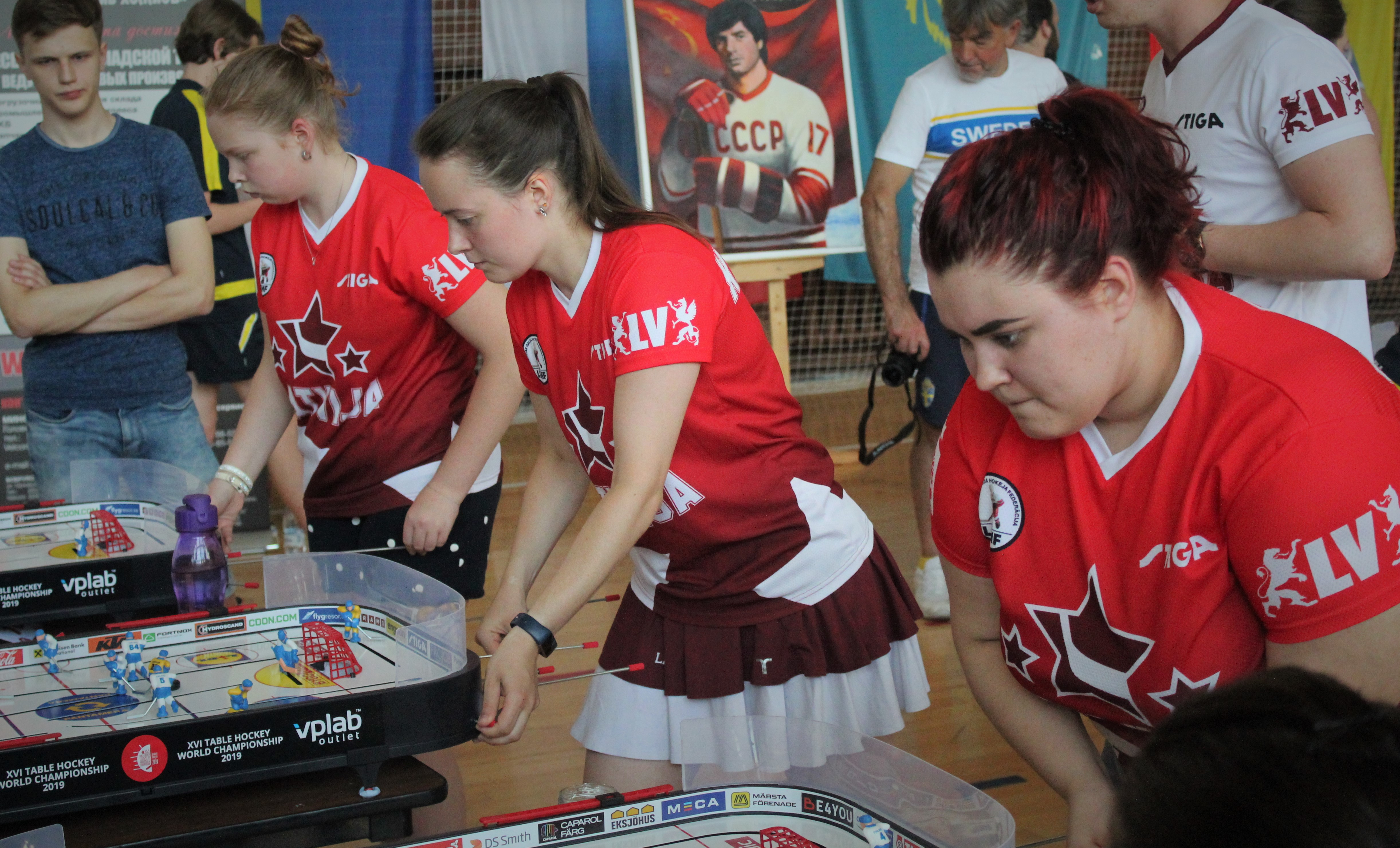 Latvian National team in Women World Table Hockey Championship - 2019 won the bronze medals. From right: Elēna Rācenāja, Laima Kamzola, Krista Aniija Lagzdiņa.